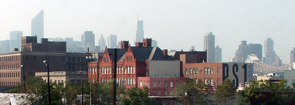 P.S. 1 Contemporary Art Center and New York City skyline. Voter by poster in August 2007.